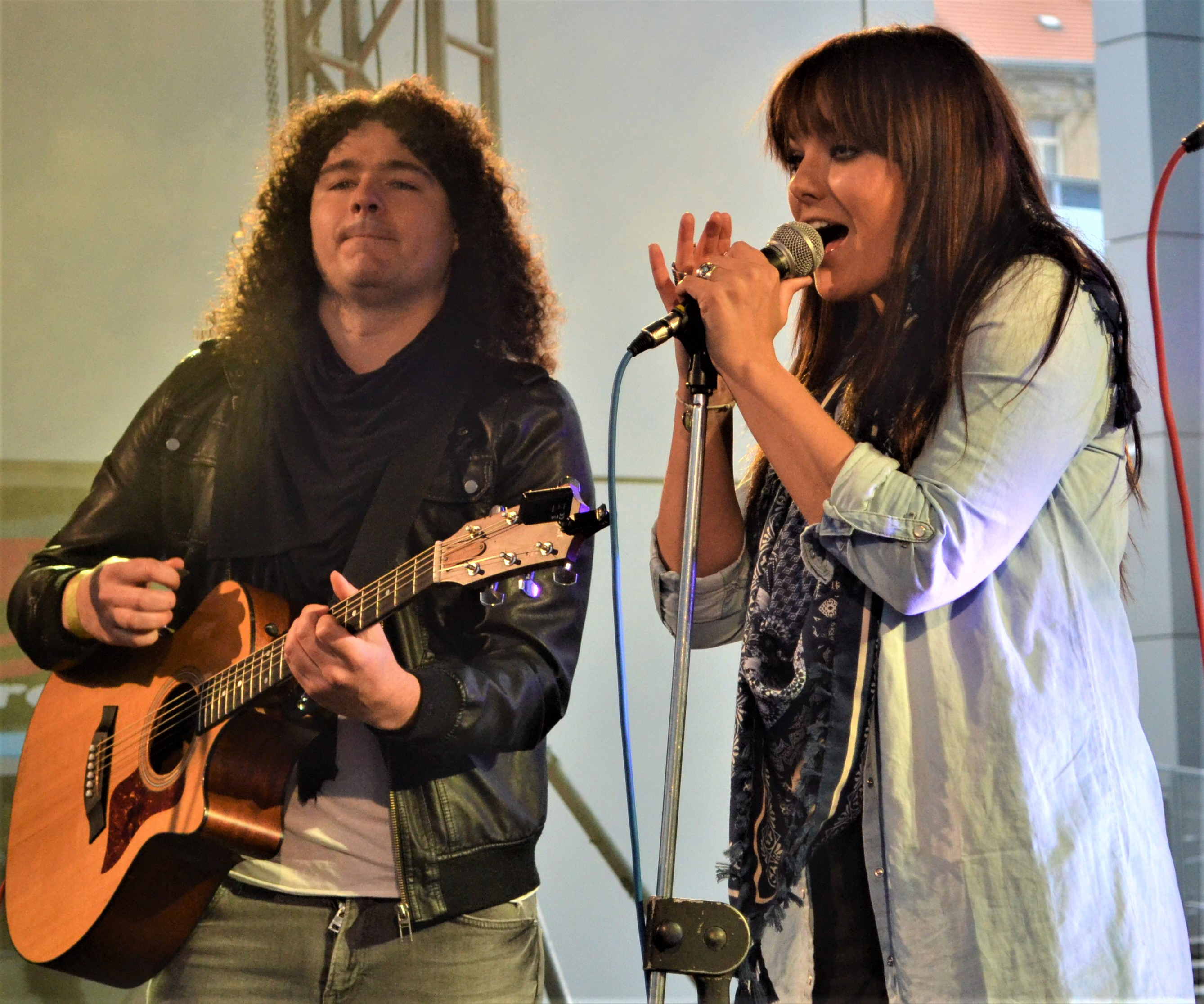 Martin Chobot, Czech guitarist and Ewa Farna, Czech vocalist